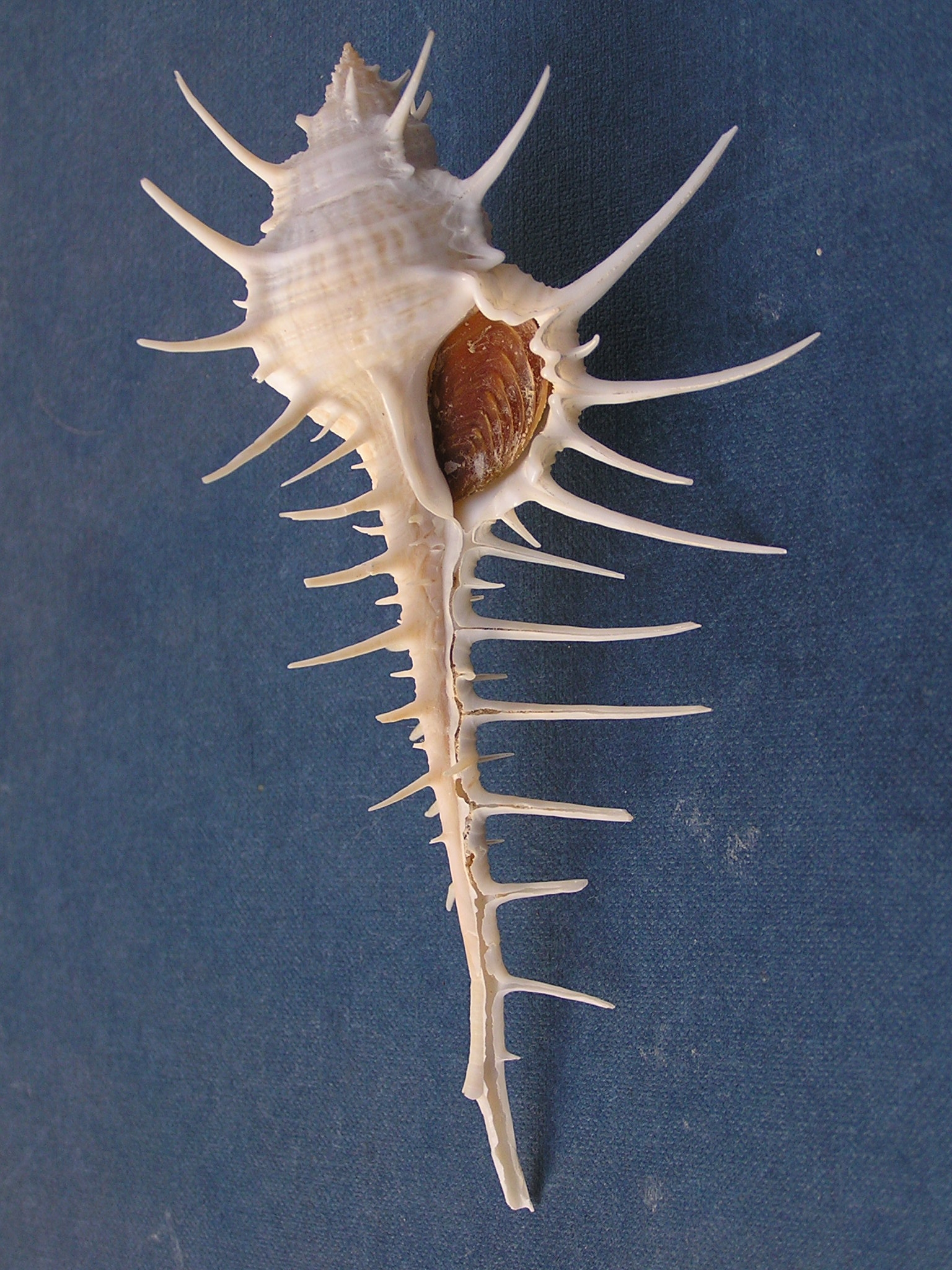 Murex altispira Ponder & Vokes, 1988 , a murex snail from the family Muricidae; Philippines